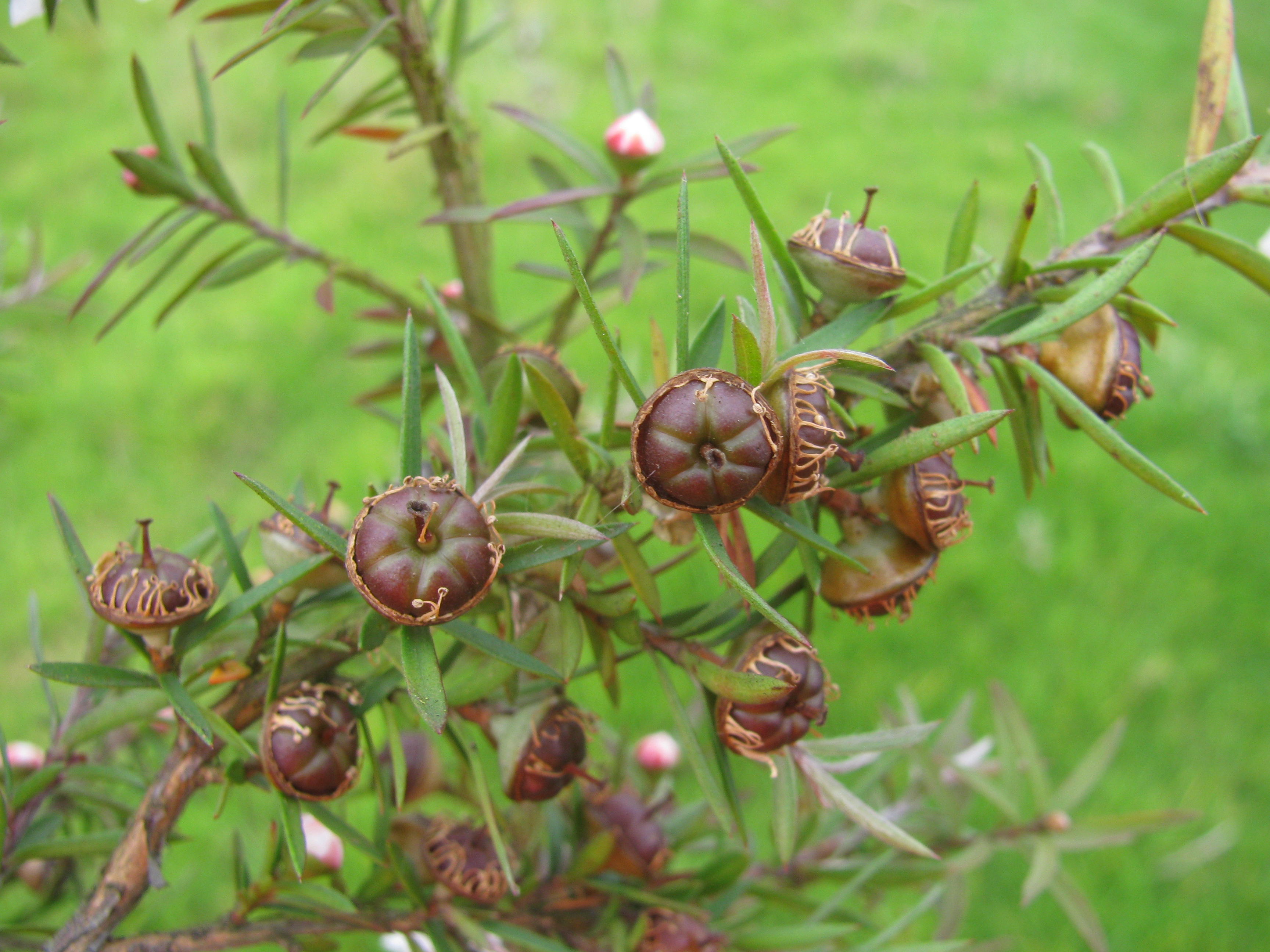 Leptospermum scoparium (New Zealand tea tree) Fruit at Crater Rd Haleakala Ranch, Maui, Hawaii. June 15, 2011 #110615-6747 Image Use Policy